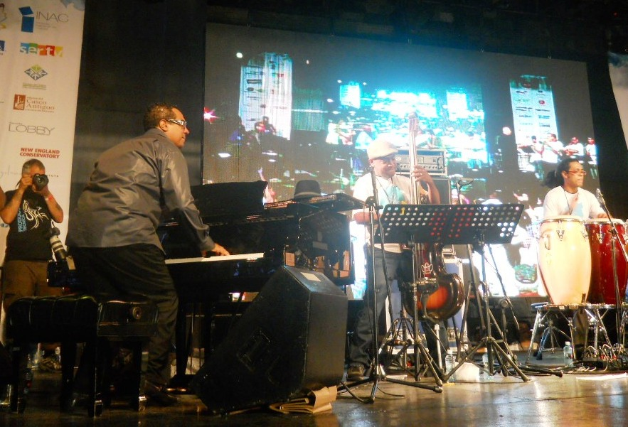 Danilo Pérez, founder of the Panama Jazz Festival, plays the piano with Tito Puente Jr. and his band, at the free concert in Plaza Catedral, San Felipe, Panama City, Panama.